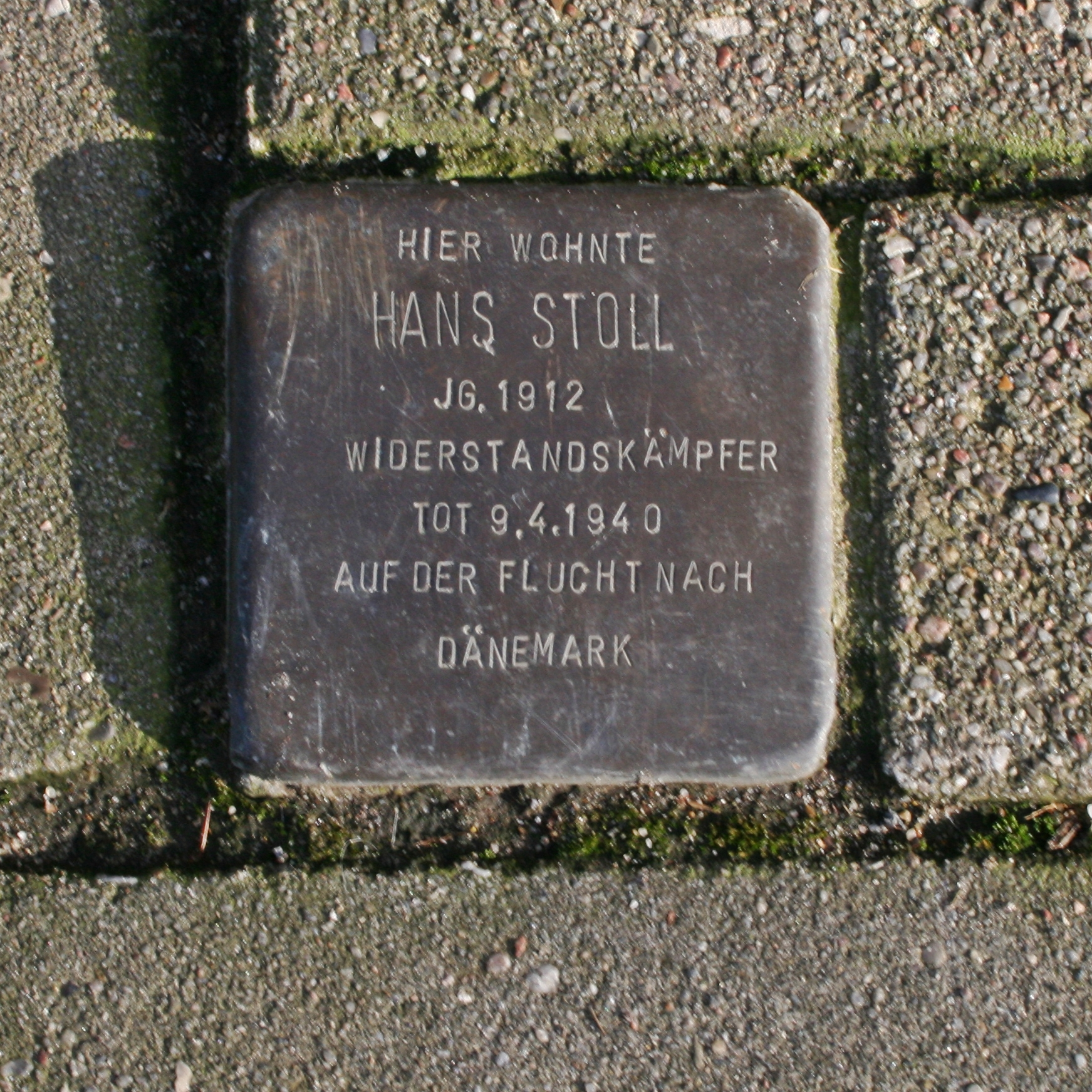 Stolperstein for Hans Stoll in Hamburg-Bergedorf, Heysestraße 5. Stoll was a member of the resistance against Nazism.